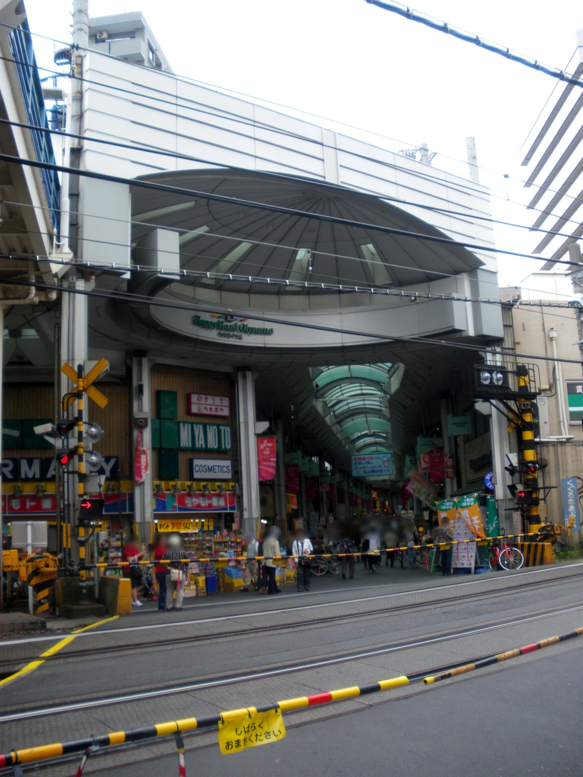 Happy Road Ohyama(Itabashi,Tokyo)